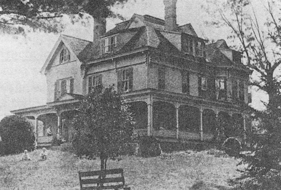 Forest Hill was an Estate and Home owned by D.D. Davies, dating to 1855 and 1885, respectively. Once located in Cullowhee, NC, the home would now be located in Forest Hills, NC, which is named for it. It was later known as the Cox Farm and its current whereabouts are unknown.